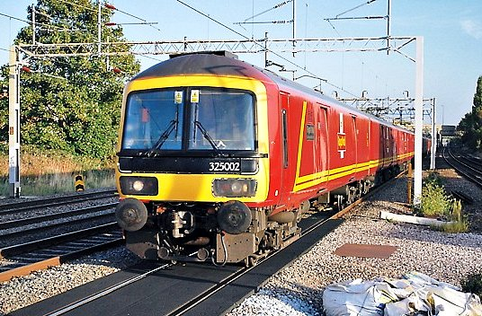 ABB (Derby) Standard Mk.III Royal Mail 25k v ac overhead 4-car emu No.325 002 "Royal Mail North Wales & North West" speeding passed Headstone Laneon a Willsden Railnet - Shieldmuir postal service, 10/09.